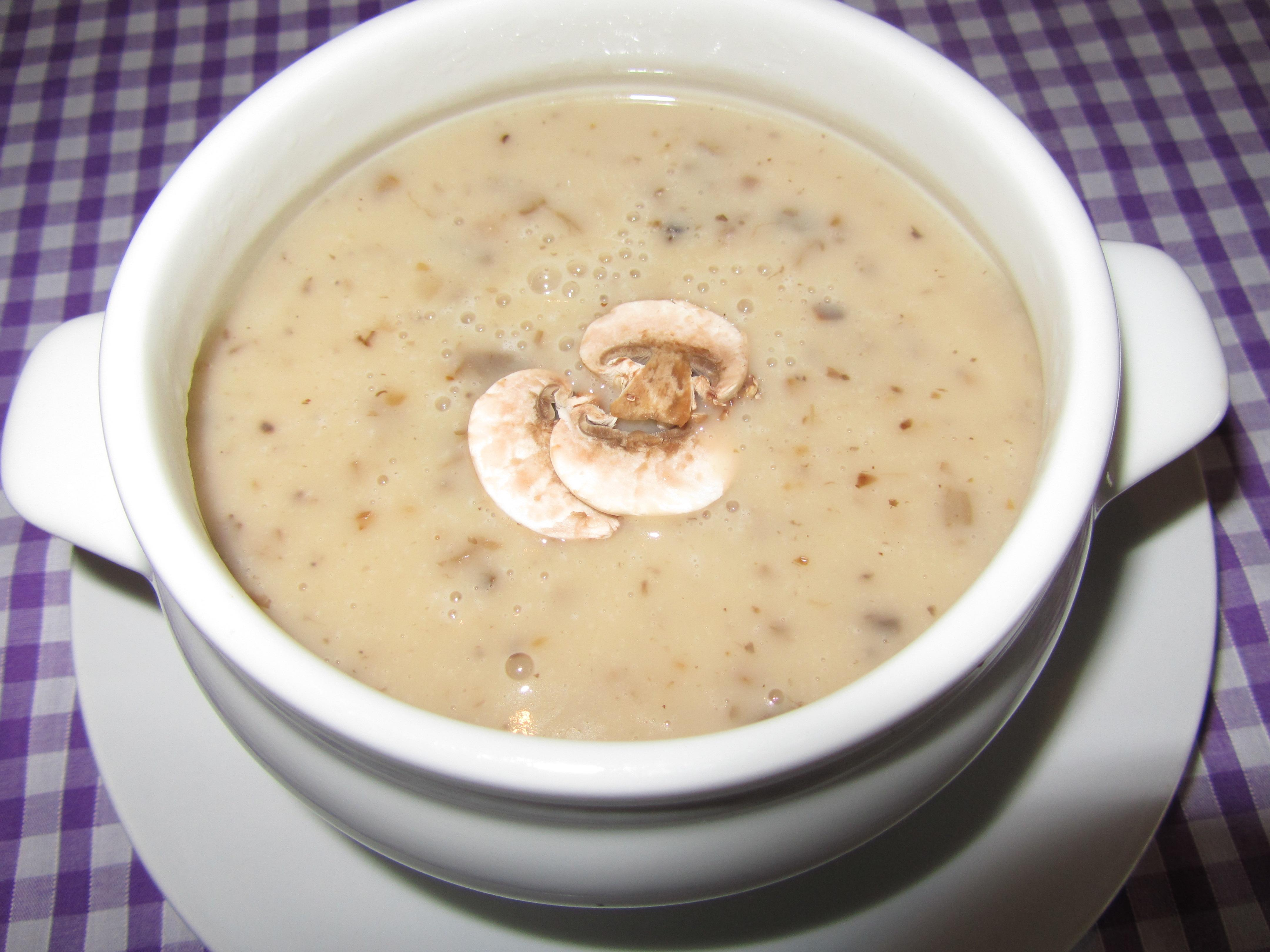 Mushroom Soup